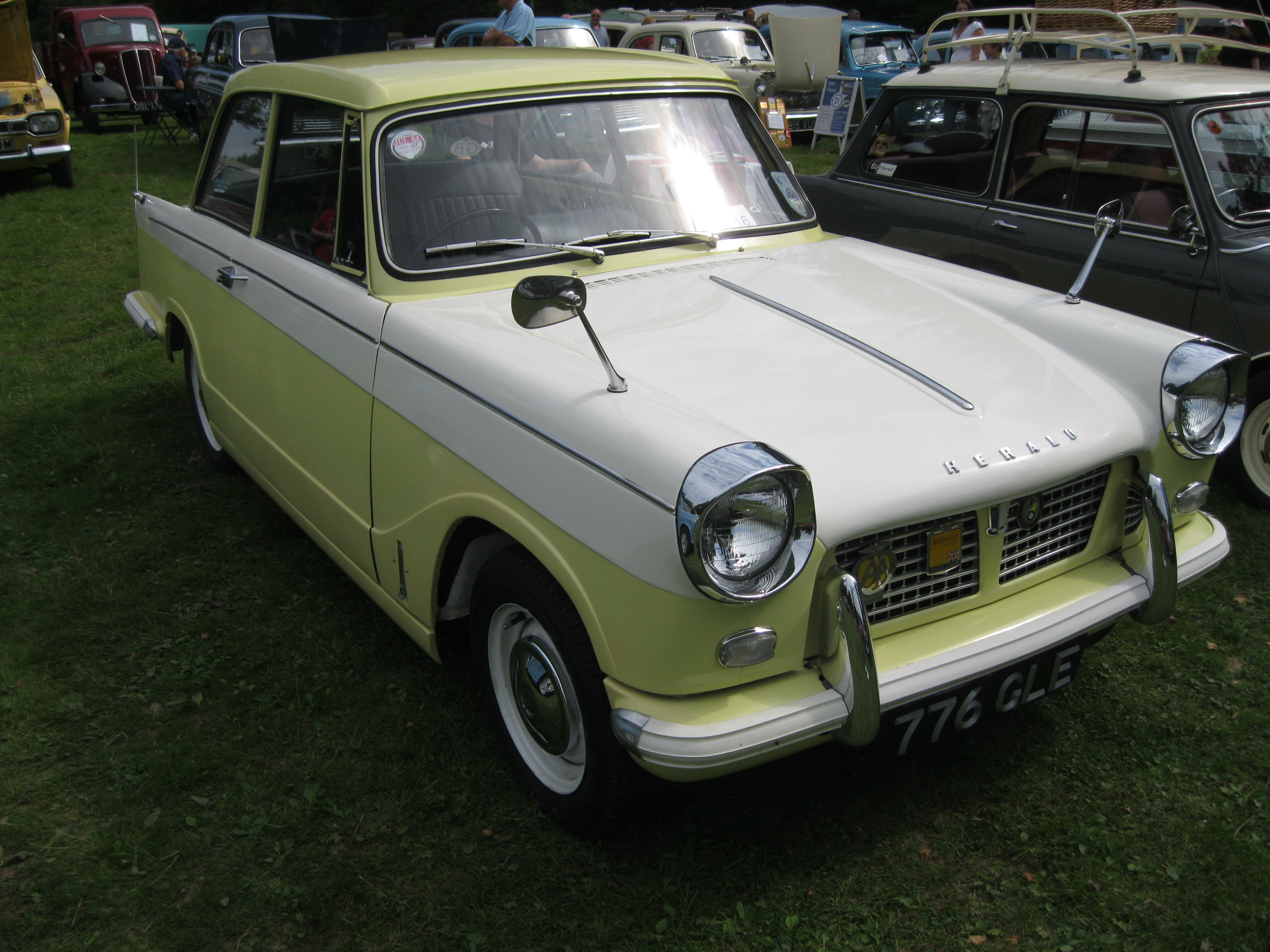 Delightful two-tone Herald- spotted at the Bluebell Railway's Transport Weekend at Horsted Keynes Station in August 2012.